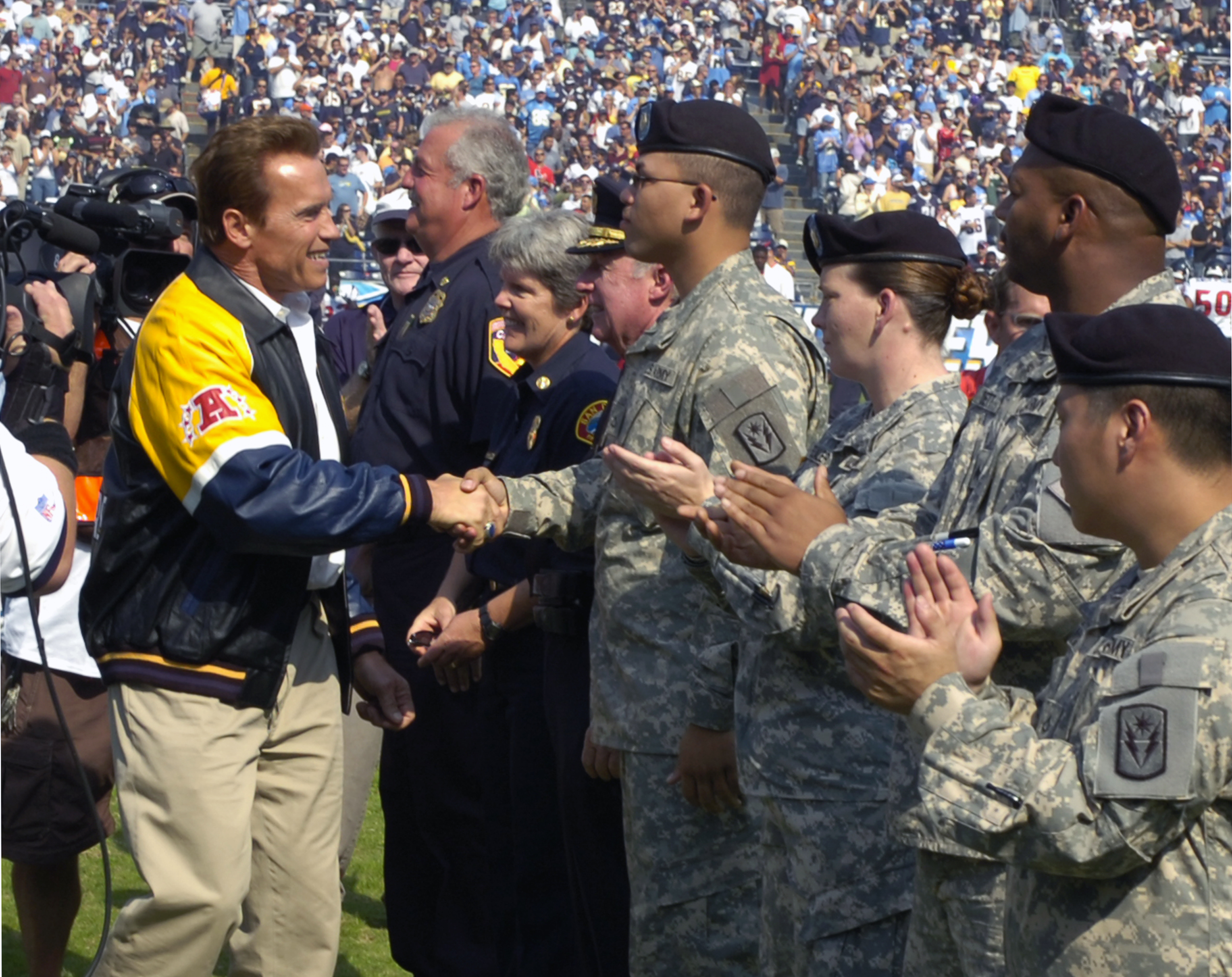 California Gov. Arnold Schwarzenegger thanks Citizen-Soldiers of the California Army National Guard for their efforts supporting civilian authorities tackling the Southern California wildfires. The Soldiers were honored Oct. 28, 2007, at the San Diego Chargers football game against the Houston Texans at Qualcomm Stadium in San Diego, Calif., because they stayed on duty despite personal wildfire losses that included the death of a family member and the destruction of their homes. More than 2,000 National Guard members have been helping the disaster recovery efforts. (U.S. Army photo by Staff Sgt. Jim Greenhill) (Released)